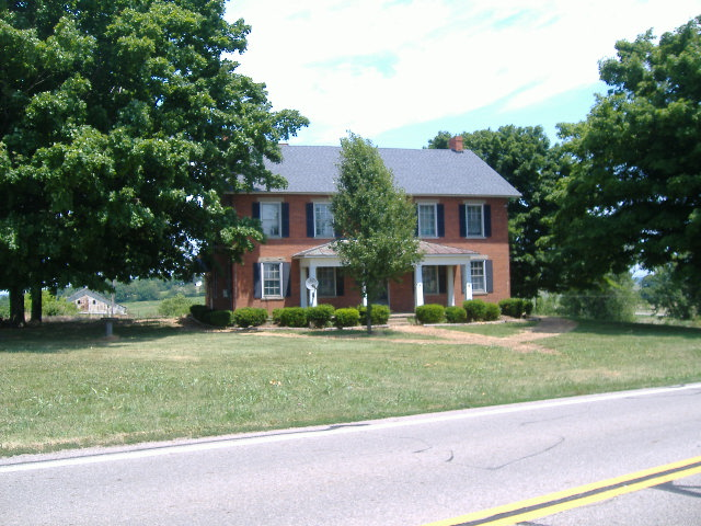 The Stevenson-Peters House located at 9860 Ohio Highway 188 northeast of Circleville.